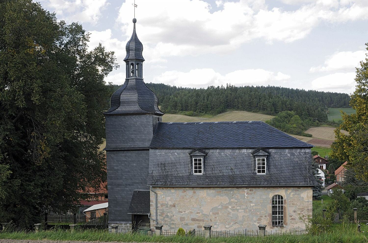 Church in Hengelbach, Rottenbach, Germany